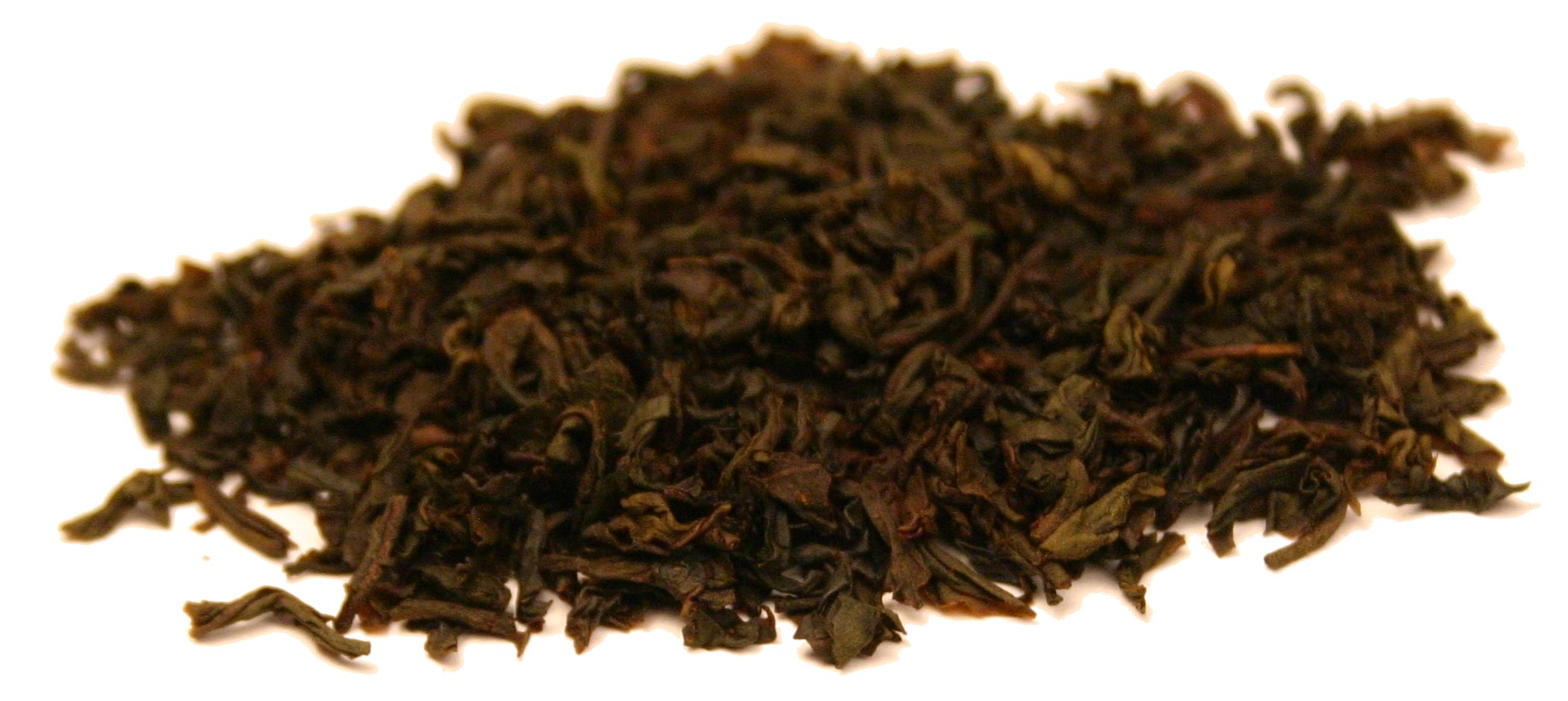 Earl Grey FBOP-Wilson Ceylon Teas - a award winning Earl Grey tea from Sri Lanka (Ceylon). camera: Canon EOS 300D camera